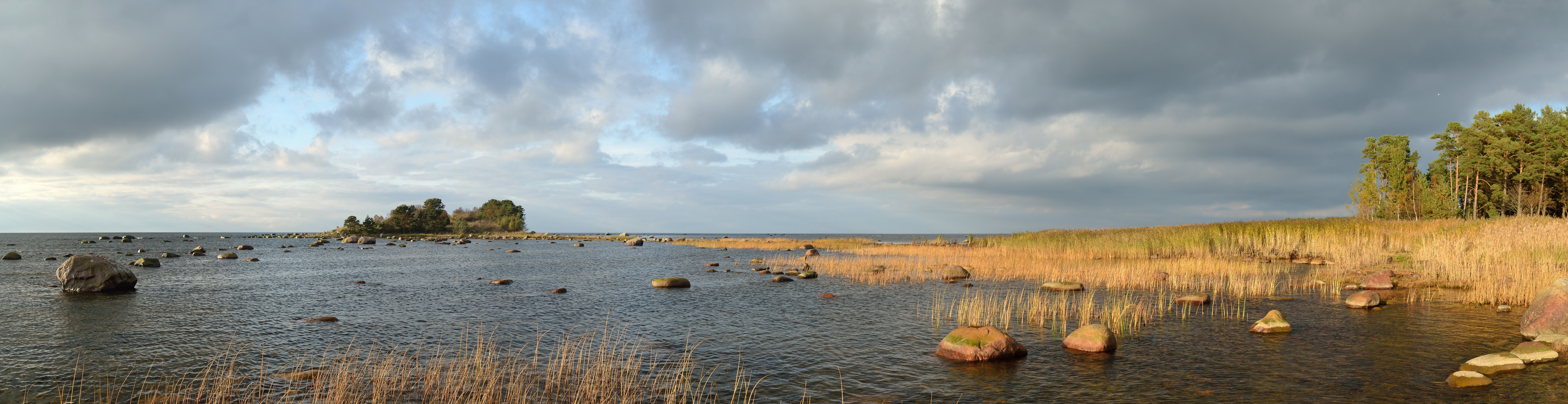 Wartime hiding place "Nabessaar" (Nabe island), Lohusalu village, Northwestern Estonia.